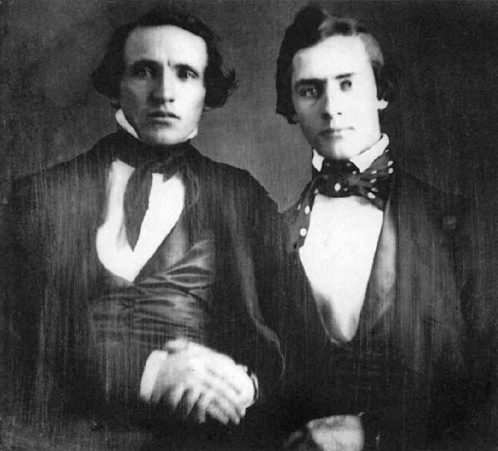 William Little Lee (left, 1821–1857) was an American lawyer who became the first Chief Justice of the Supreme Court for the Kingdom of Hawaii. Charles Reed Bishop, (right, 1822–1915) founded Hawaii's first bank and inherited the estate from his wife that was the largest private landowner, now Kamehameha Schools.